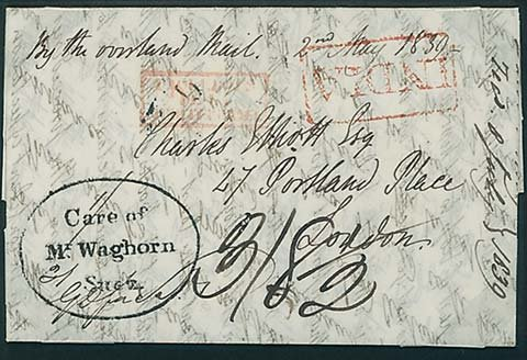 A cross-written entire with family news, from Calcutta by the Overland Mail via Egypt and France to London, with oval cachet "Care of Mr. Waghorn"